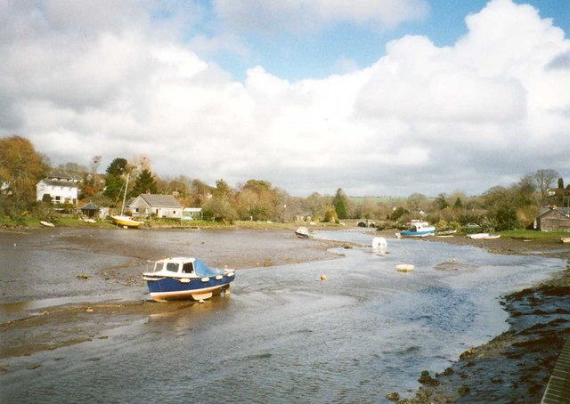 The River Lerryn at low tide, Lerryn, St Winnow. The building close to the river is at Little Quay. The bridge is in the distance.